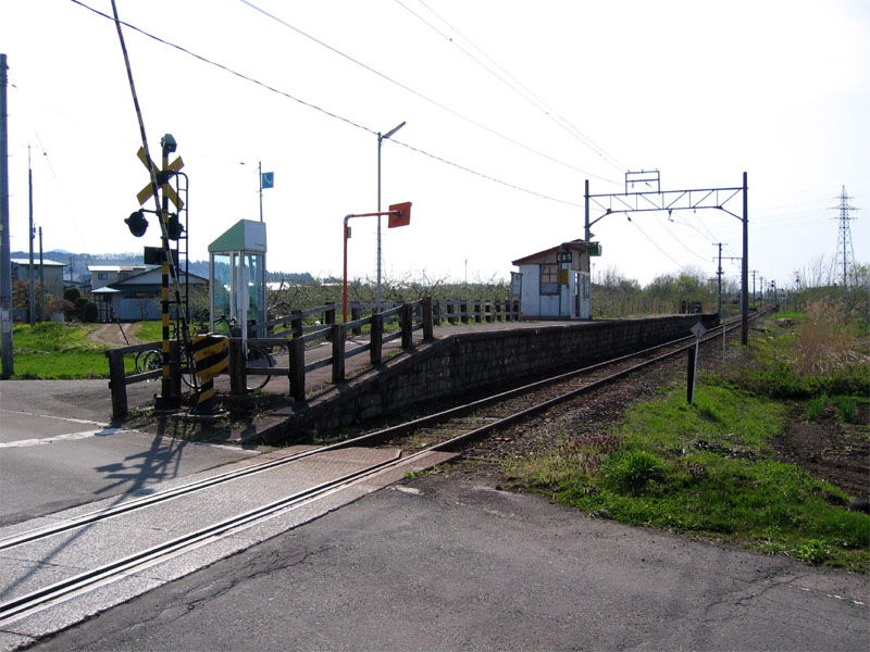 Matsukitai Halt in Hirosaki-City, Aomori-Prefecture, Japan.